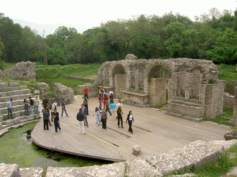 Roman theatre in Butrint, Albania Picture: Joonas Lyytinen